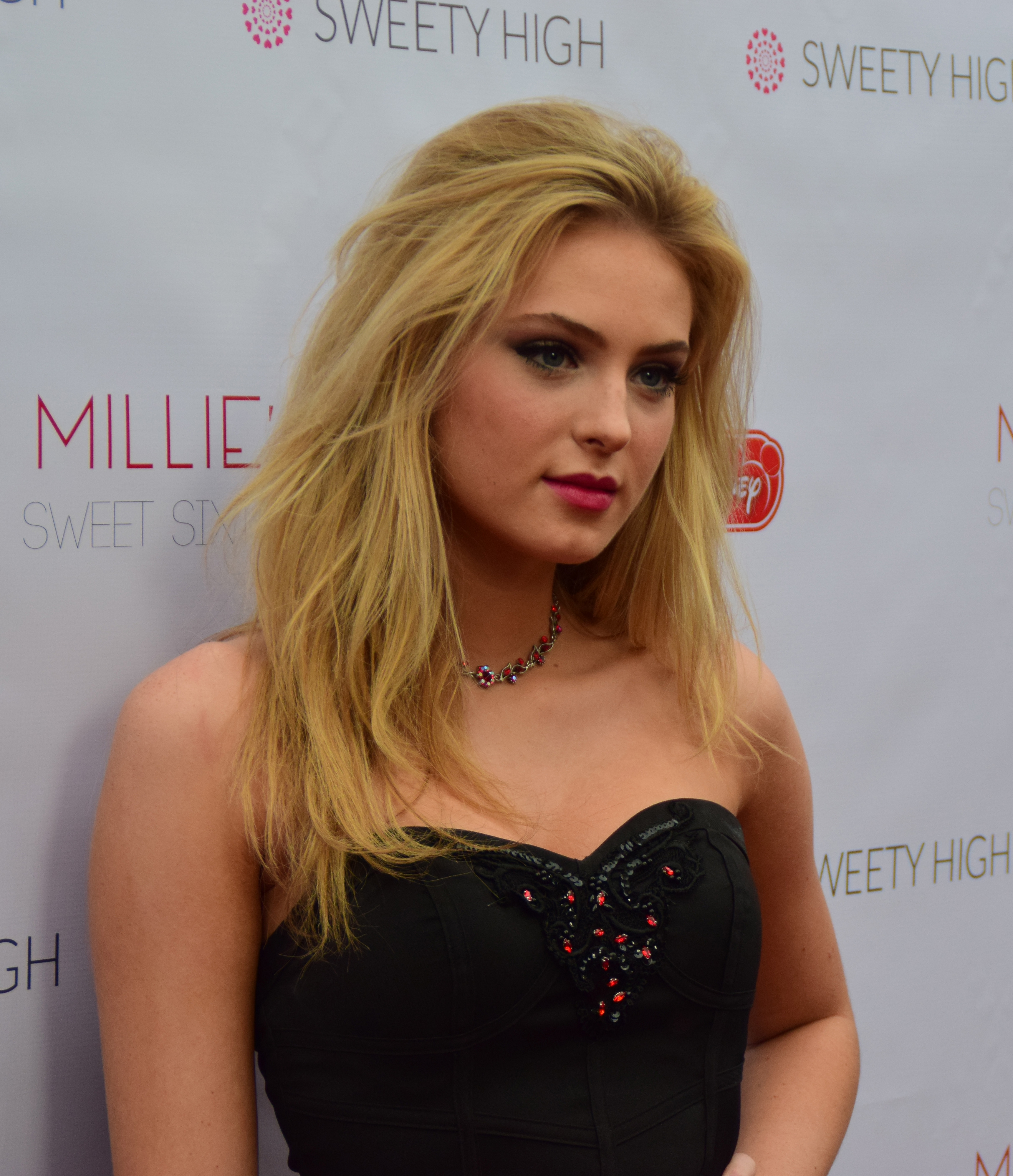 Actress Saxon Sharbino at the Millie Thrasher's Sweet 16 Party. Image has had AutoContrast & AutoLevels in Photoshop applied to it.